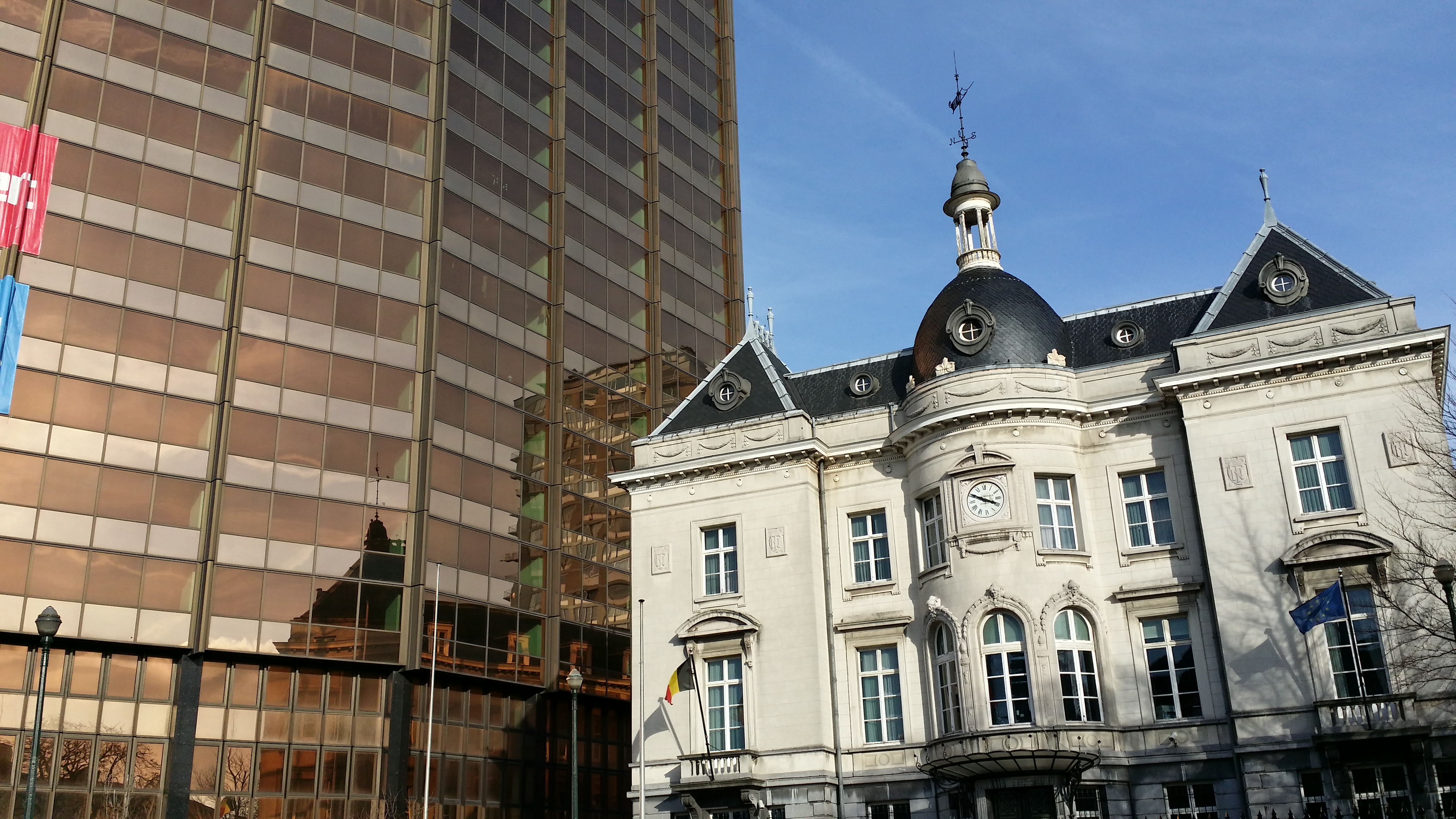 Town hall